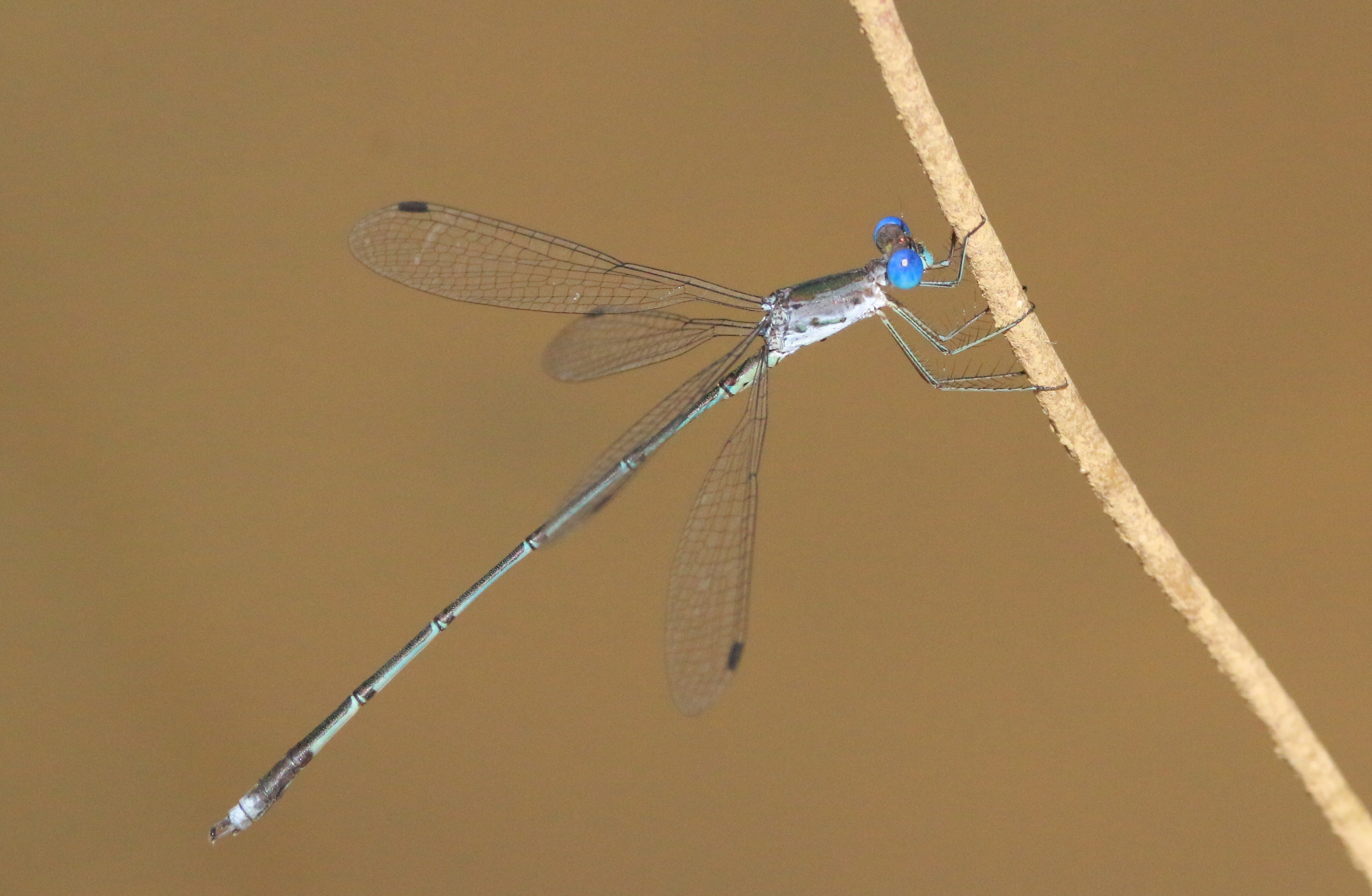 Lestes elatus,emerald spreadwing